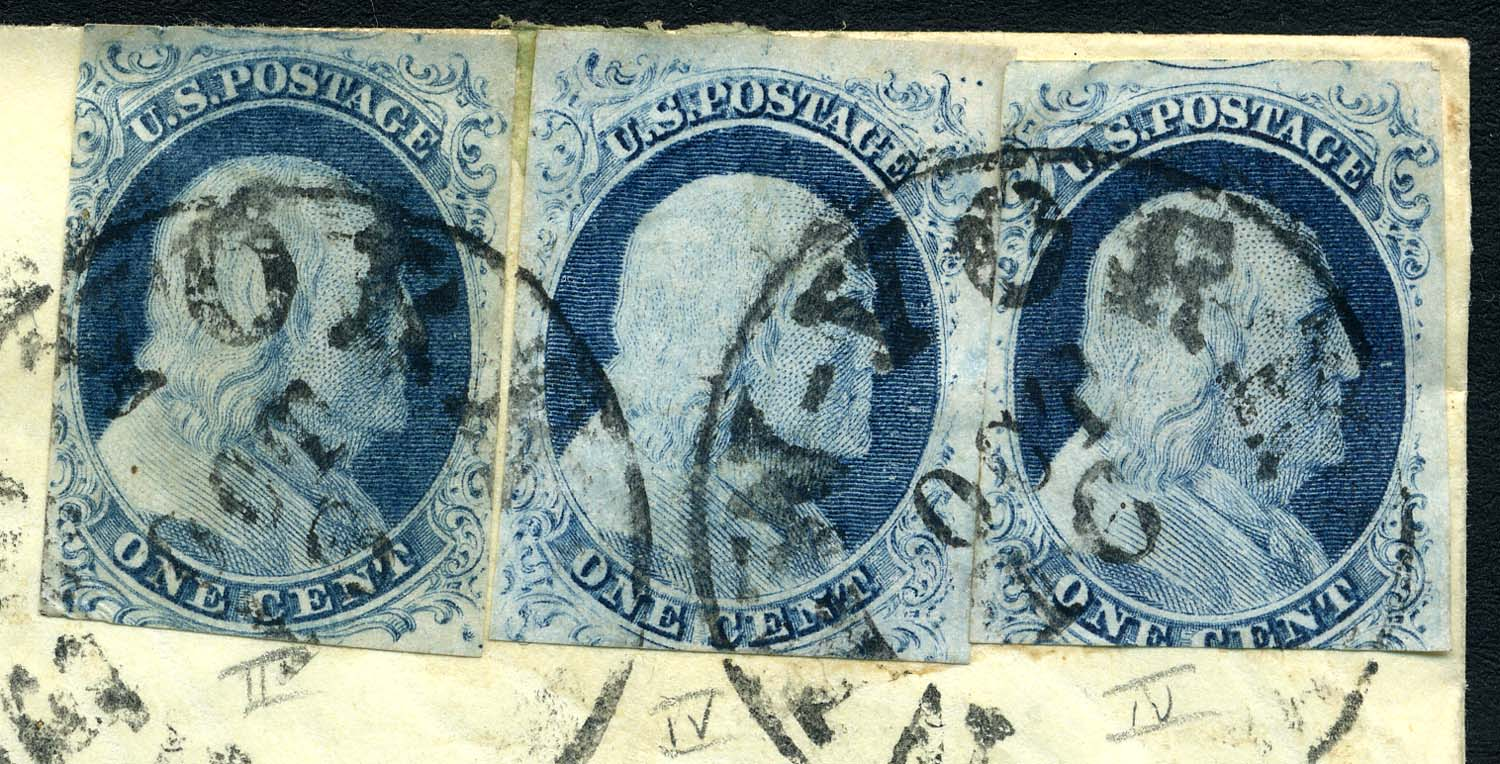 United States 1-cent postage stamp of 1851, three copies on cover (one type II, two type IV